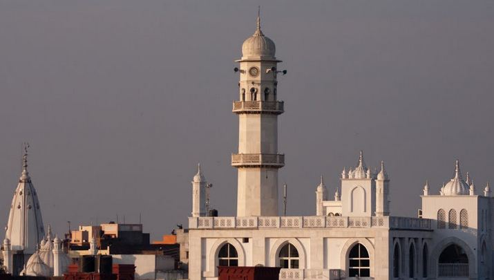 Qadian rooftop and Minaratul Masih and Masjid Mubarak